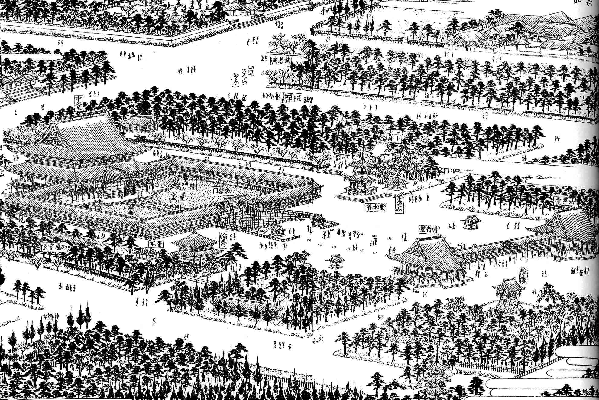 Kan'ei-ji as depicted in Edo meisho zue Illustrated by Hasegawa Settan